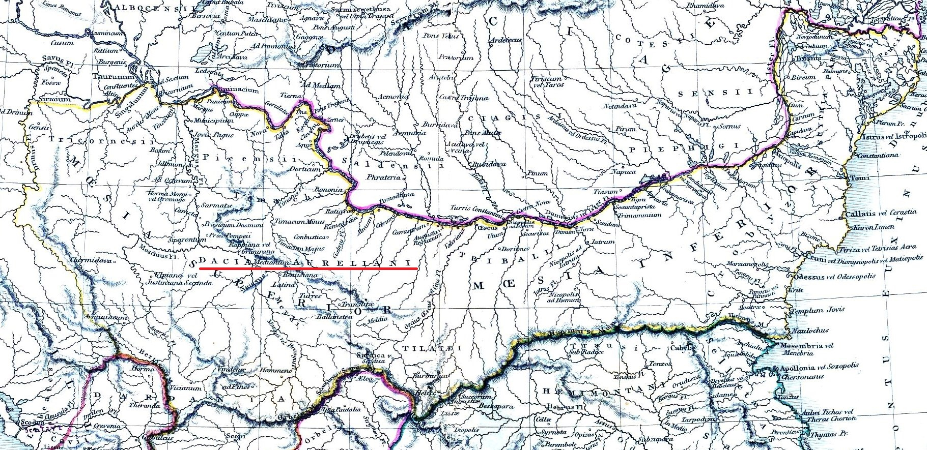 Dacia Aureliana